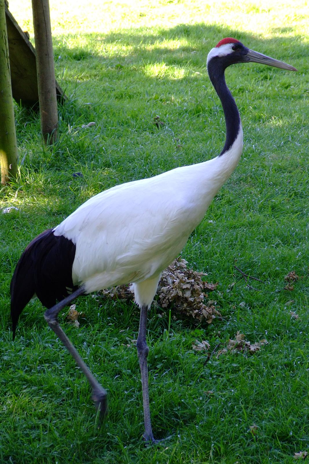 A Red-crowned Crane (also called the Japanese Crane or Manchurian Crane) at Marwell Wildlife, Hampshire, England.